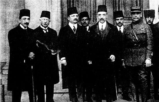 Damad Ferid and Ali KemalTürkçe: Damad Ferid ve Ali Kemal